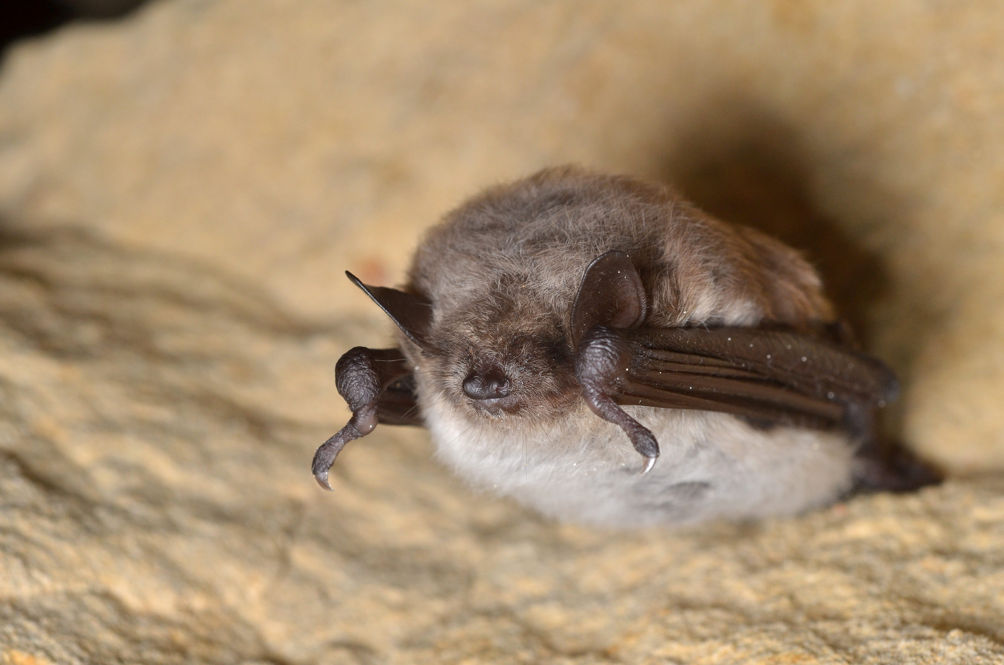 Myotis dasycneme, Natura 2000 species, quite rare in Europe. In the Benelux, it hunts only above very calm rivers ("canneaux") mainly in the north (The Netherlands, Flanders). At fall it makes migrations toward the south (of the Benelux) to overwinter in natural and artificial caves that are quite rare in The Netherlands.